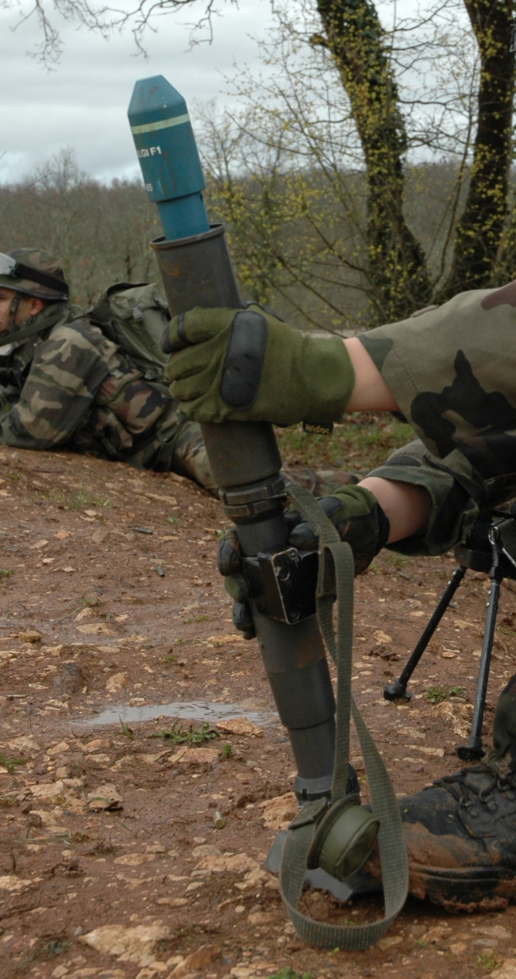 Lance-grenade individuel: Training genade being loaded into an LGI